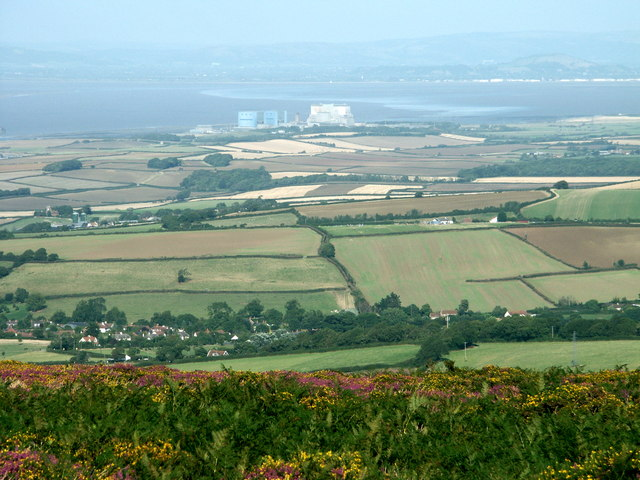 Hinkley Point Power Stations A/B - from the Quantock Hills. Here lies the future of Britain's nuclear programme to meet future electricity needs.